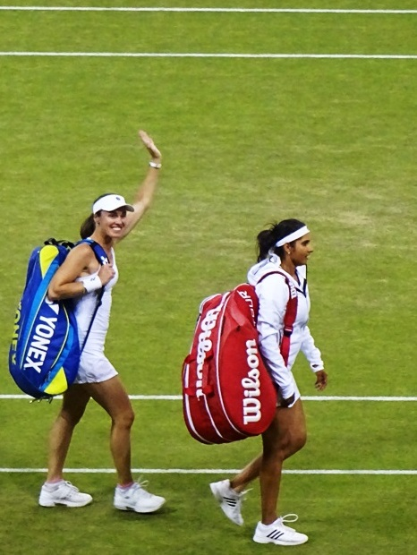 Martina Hingis and Sania Mirza won the ladies' doubles title at Wimbledon 2015